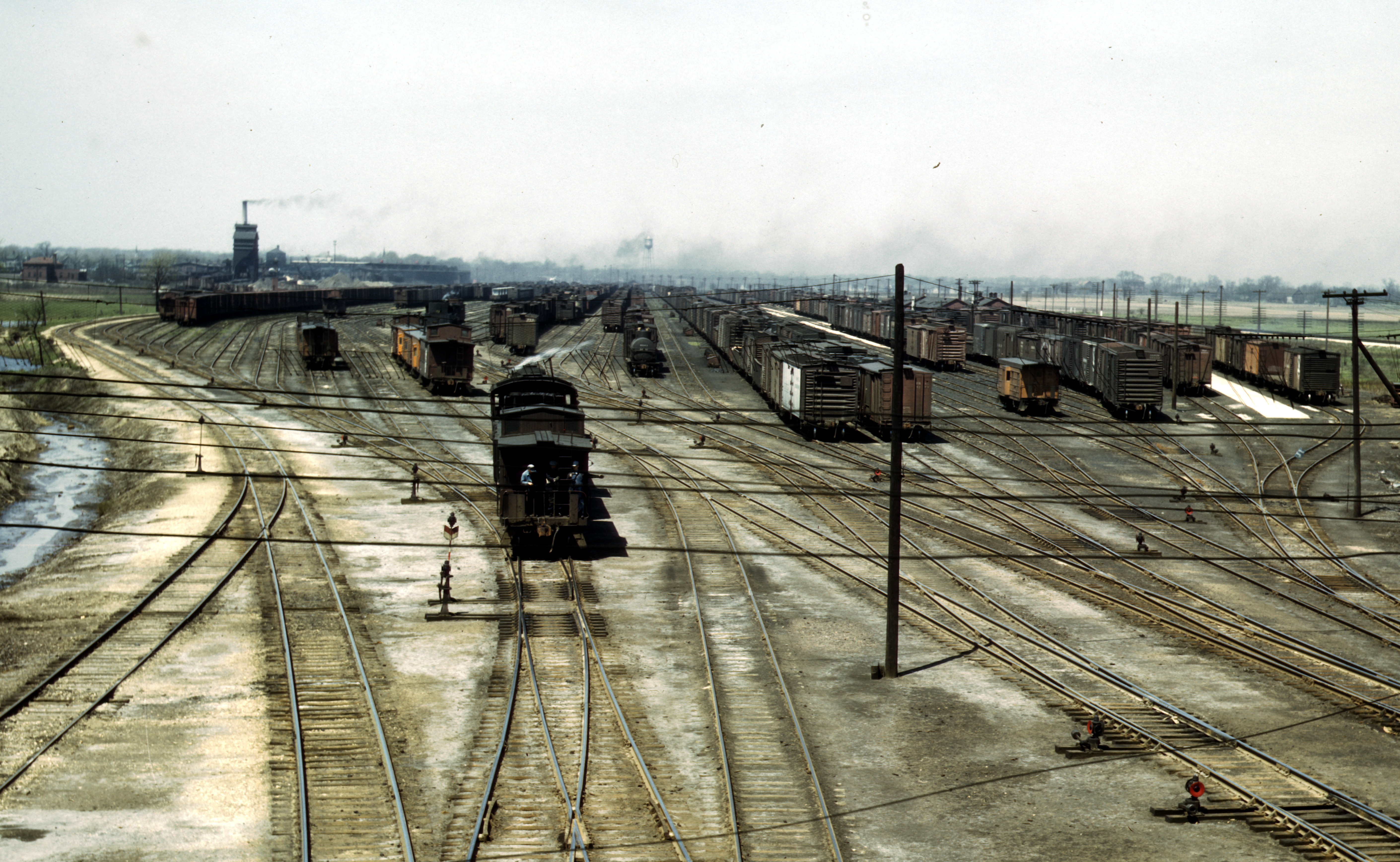 Title: General view of part of the Bensenville freight yard of the Chicago, Milwaukee, St. Paul and Pacific Railroad, Bensenville, Ill. Abstract/medium: 1 transparency : color.